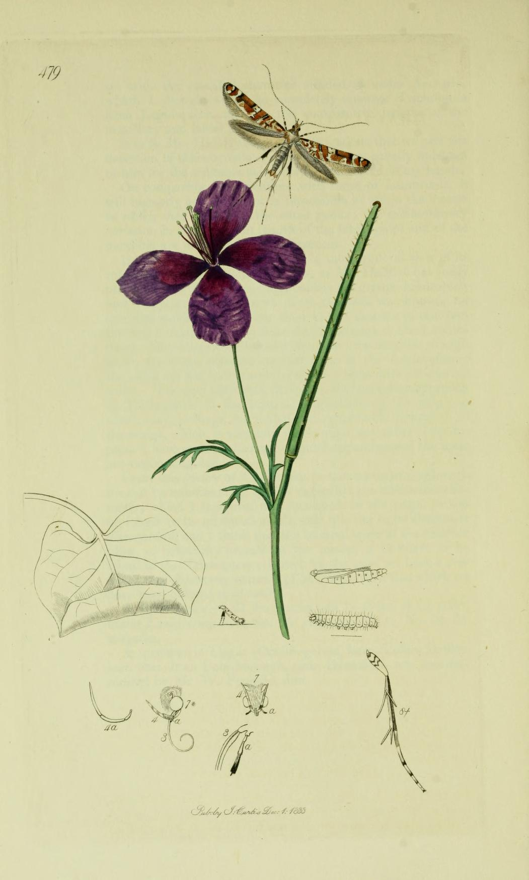 An illustration from British Entomology by John Curtis. Lepidoptera: Gracillaria anastomosis Caloptilia (Gracillaria) syringella (Lilac Slender-moth).